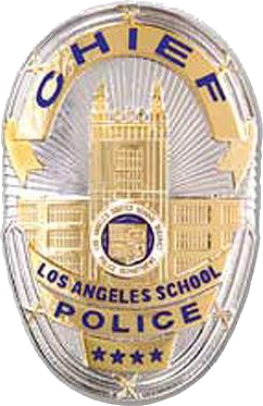 LASPD